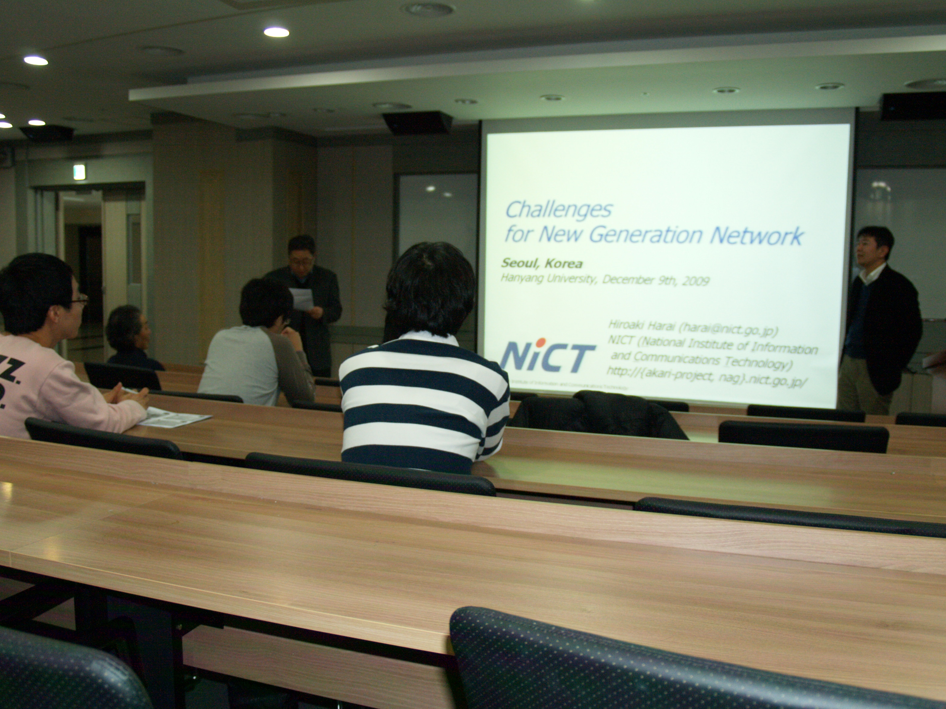 Seminar in FTC. Discussing Next Generation Network by NICT(Japan) researcher